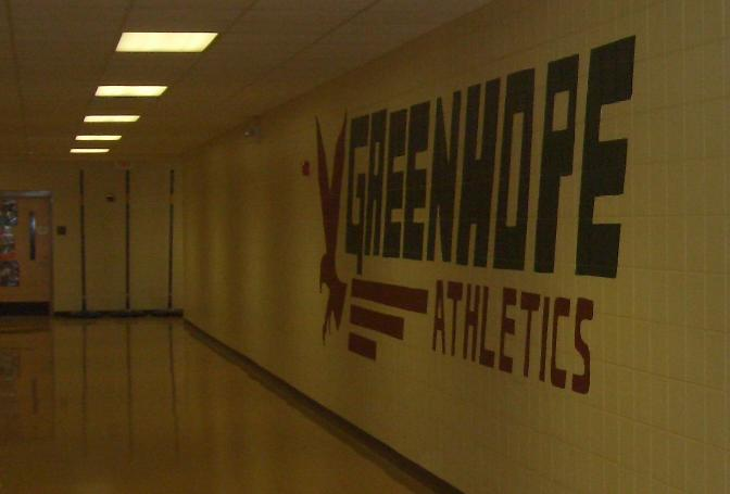 This photo is intended to showcase the school's athletic facilities. The gymnasium was not available for photographs due to final-examinations and preparation for graduation awards ceremonies.